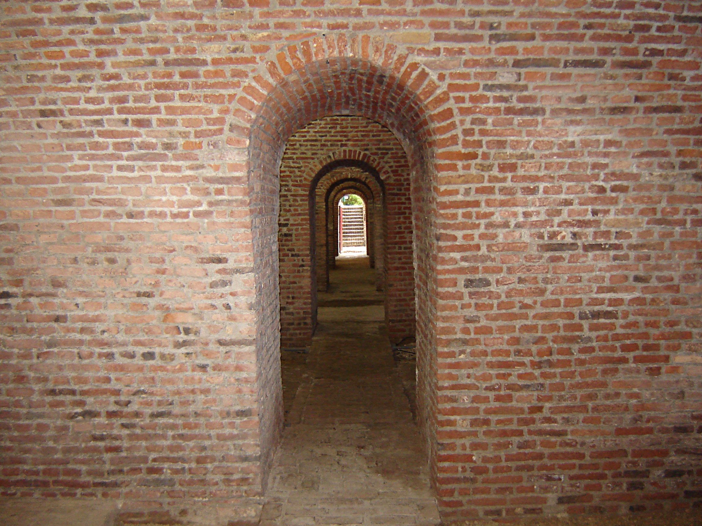 Casemates in Menen. Menen, West Flanders, Belgium